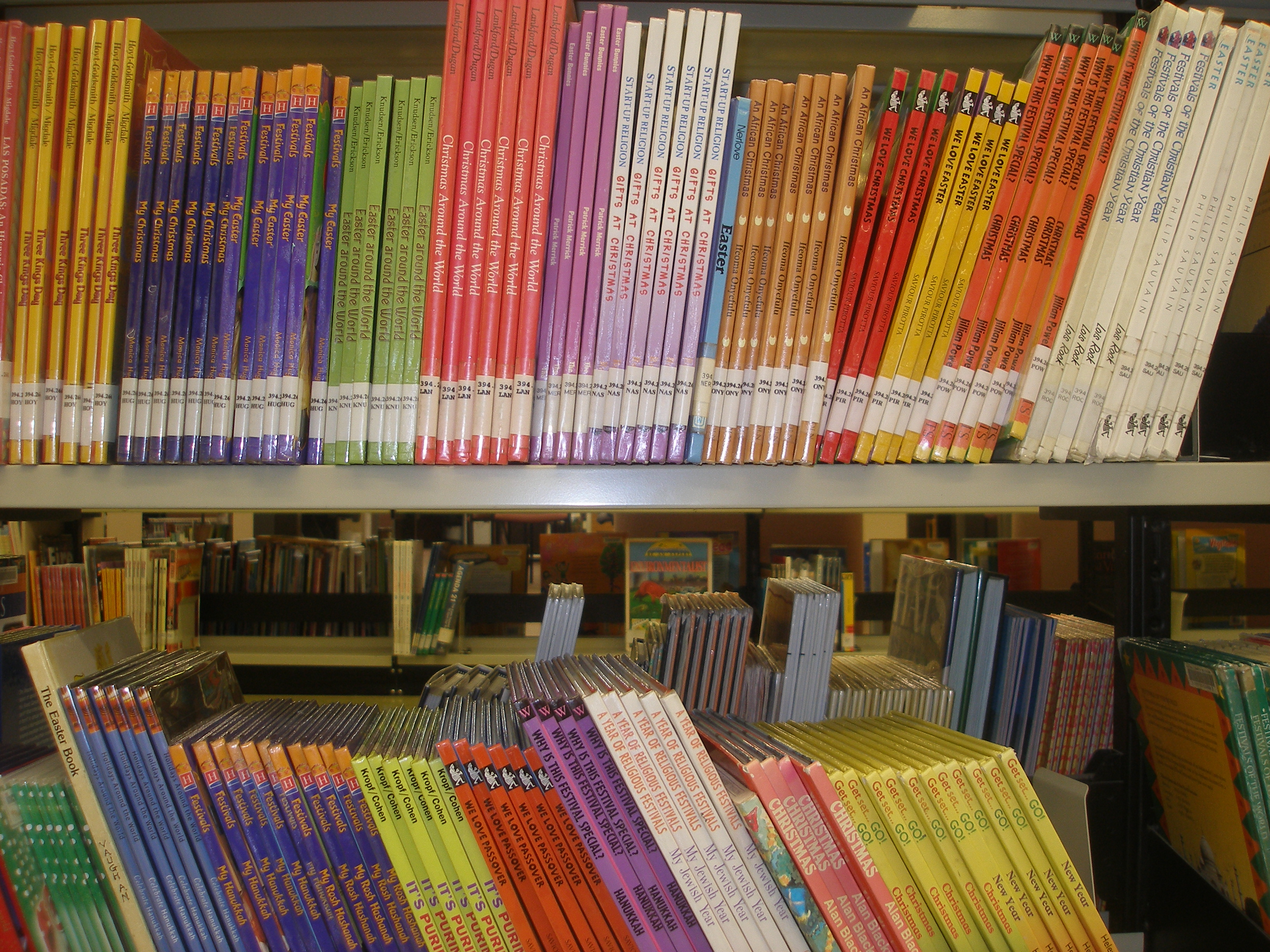 A photograph of a library shelf filled with children's non fiction titles